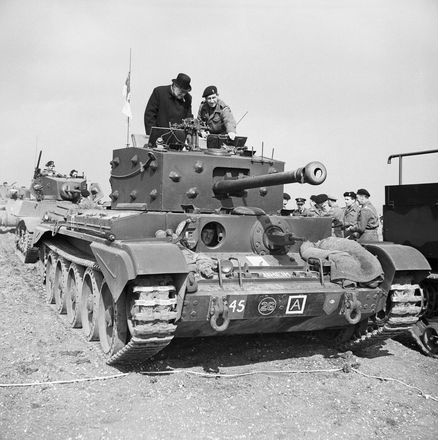 Winston Churchill during the Second World War Winston Churchill inspects a Cromwell Mk IV tank of No. 2 Squadron, 2nd (Armoured Reconnaissance) Battalion, Welsh Guards, at Pickering in Yorkshire, 31 March 1944. The tank is named 'Blenheim'. The tank was the mount of Major John Ogilvie Spencer, commanding No. 2 Squadron, and later killed in Belgium on 9 September 1944.